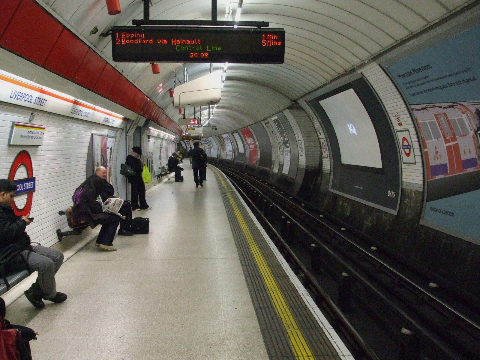 Liverpool Street tube station Central line eastbound platform looking west, showing new projected adverts